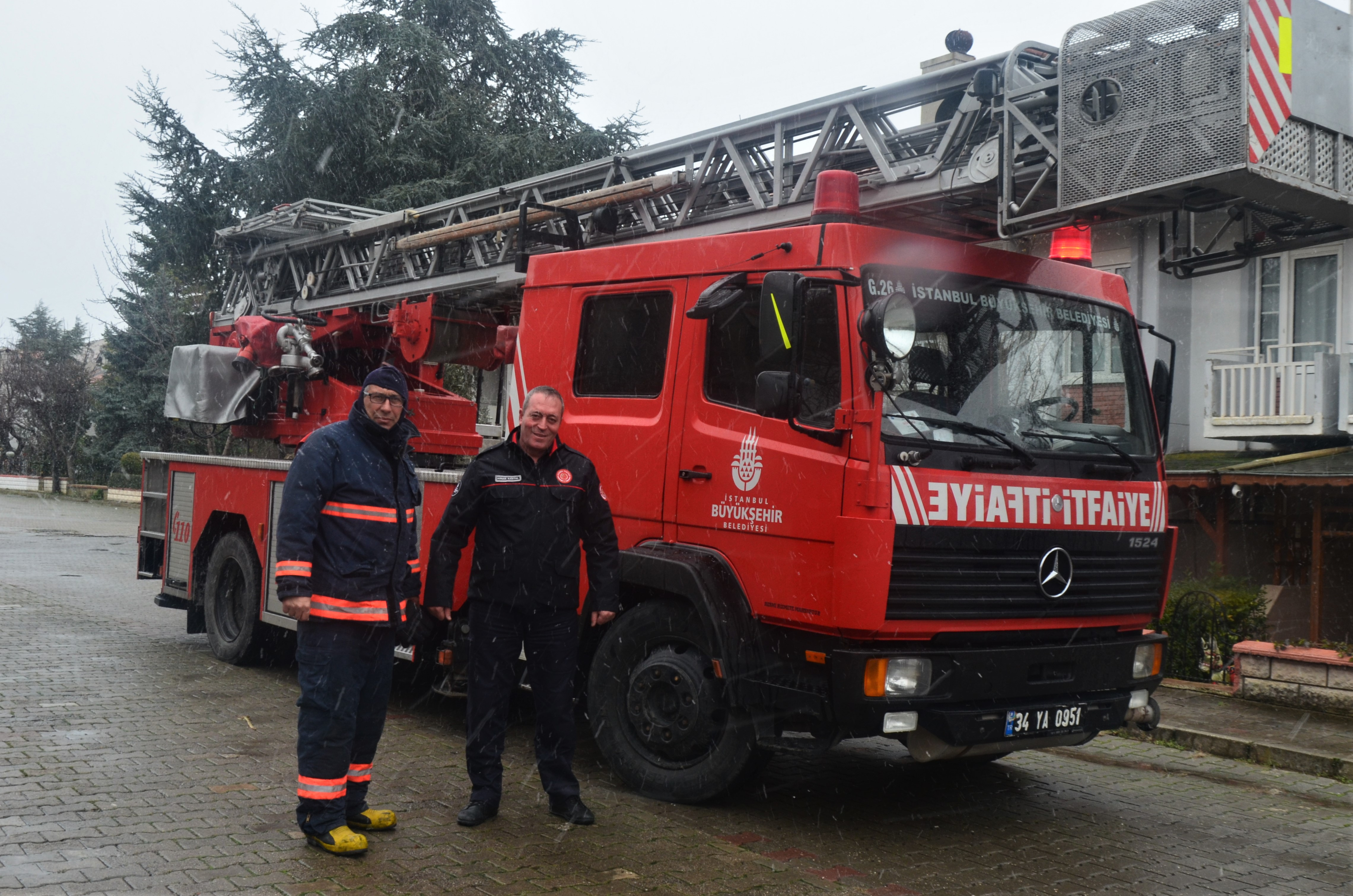 Mercedes-Benz 1524 fire ladder truck and fire fighters of Istanbul Metropolitan Municipality in Silivri, Istanbul Province, Turkey.